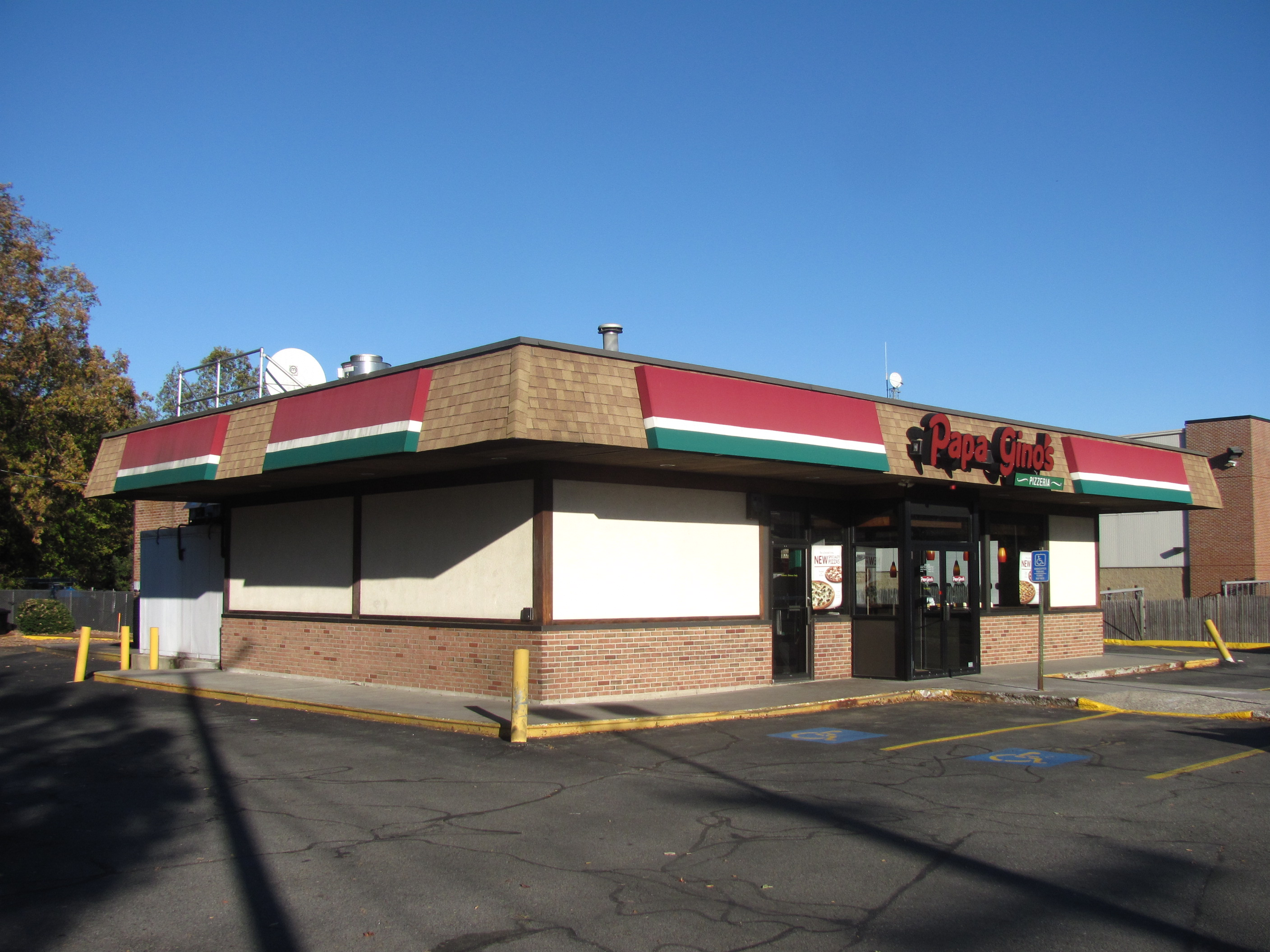 Papa Gino's, Bedford Massachusetts